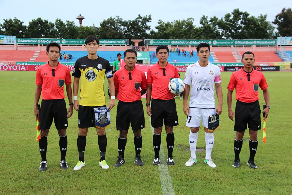 Kwon Daehee Captain Action